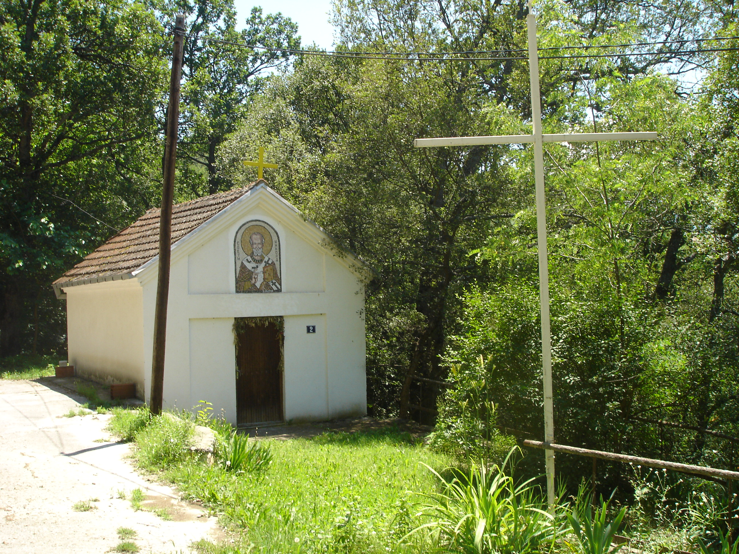 church of Sv. Nikola in Osinchani, Macedonia